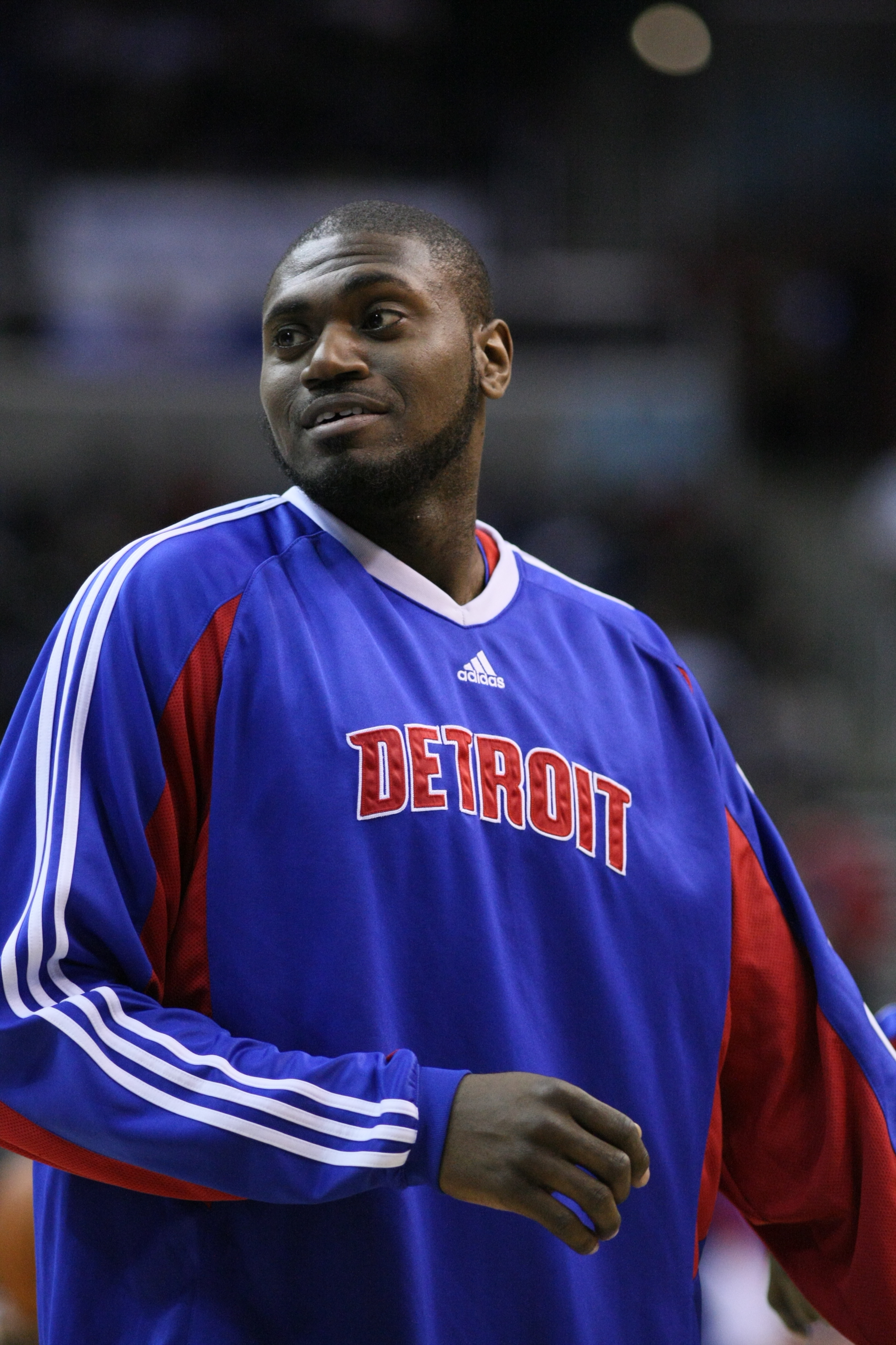 Jason Maxiell, of the National Basketball Association's Detroit Pistons, during a 2008 basketball game against the Washington Wizards.